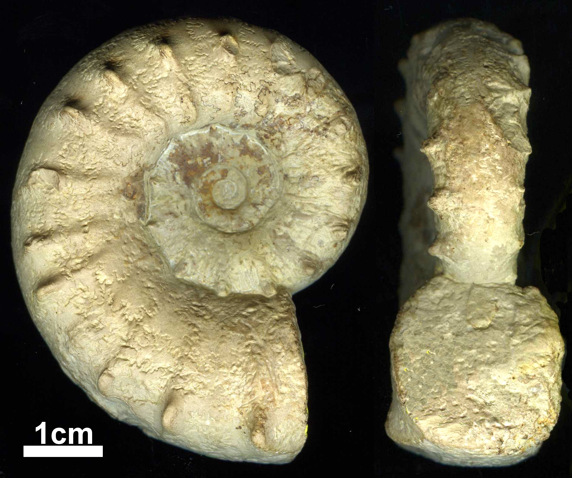 Ammonite Euaspidoceras perarmatum, Oxfordian (Upper Jurassic), Ogrodzieniec (Poland)